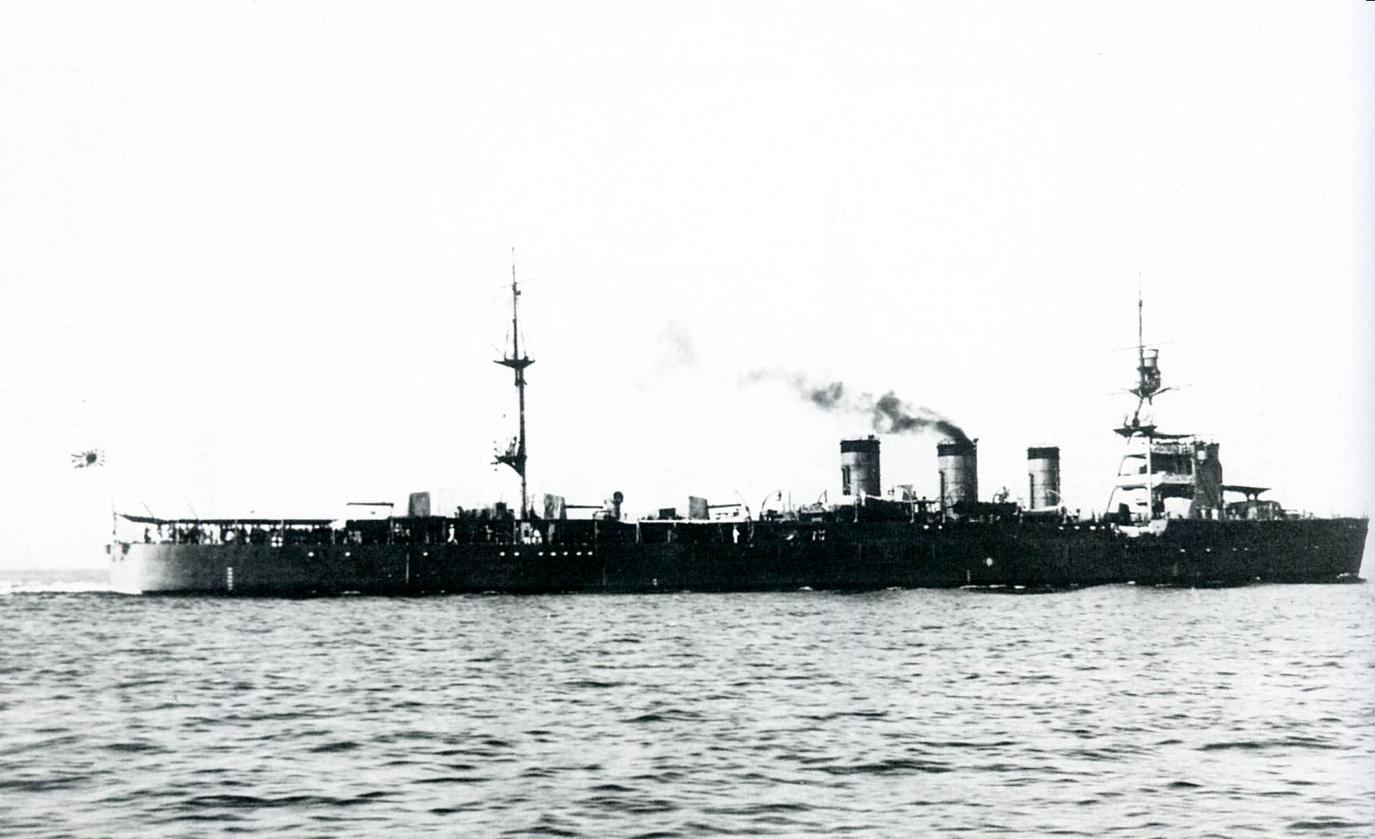 Japanese light cruiser Natori off Nagasaki in 1922.